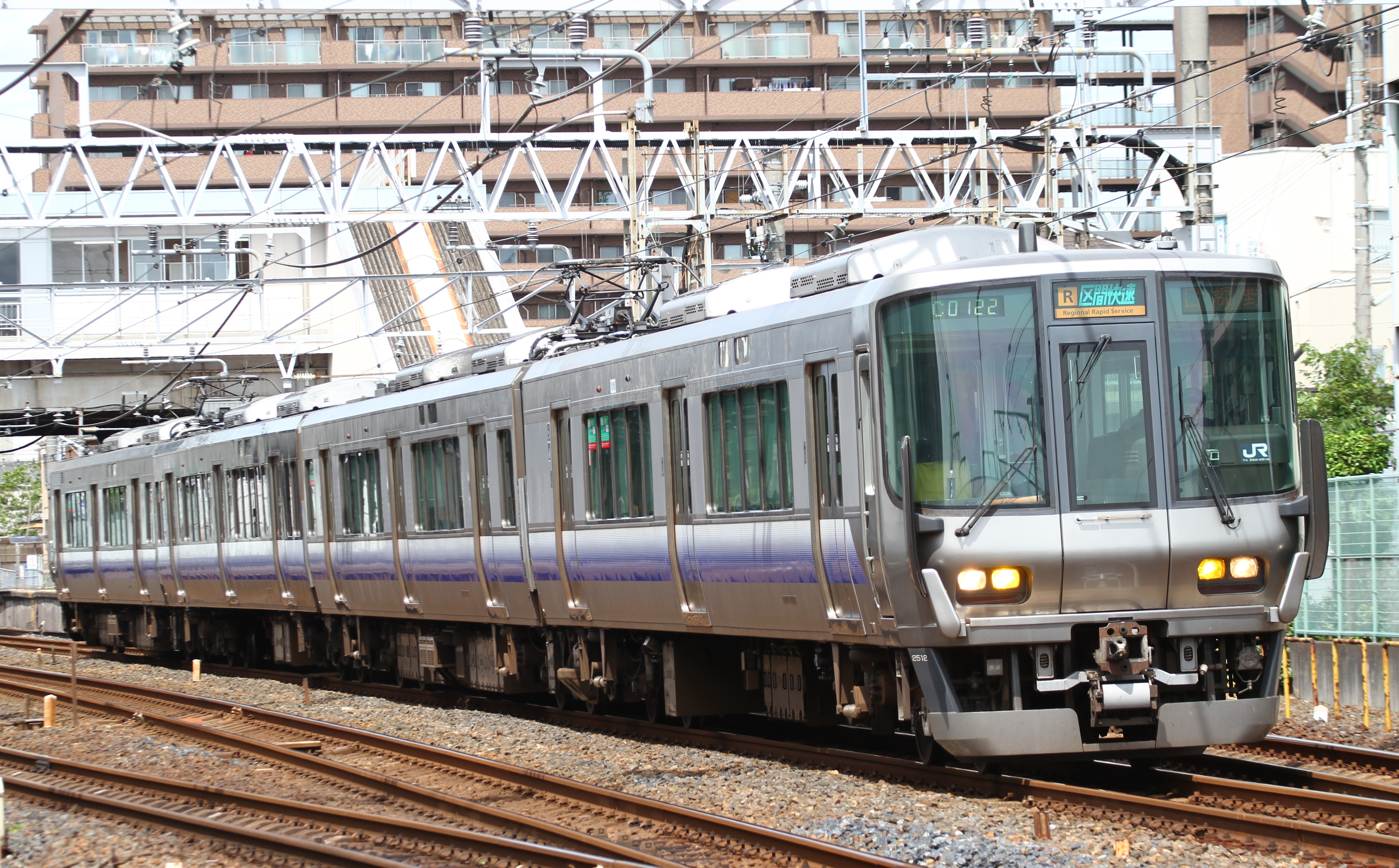 A JR West 223-2500 series EMU at Uenoshiba Station